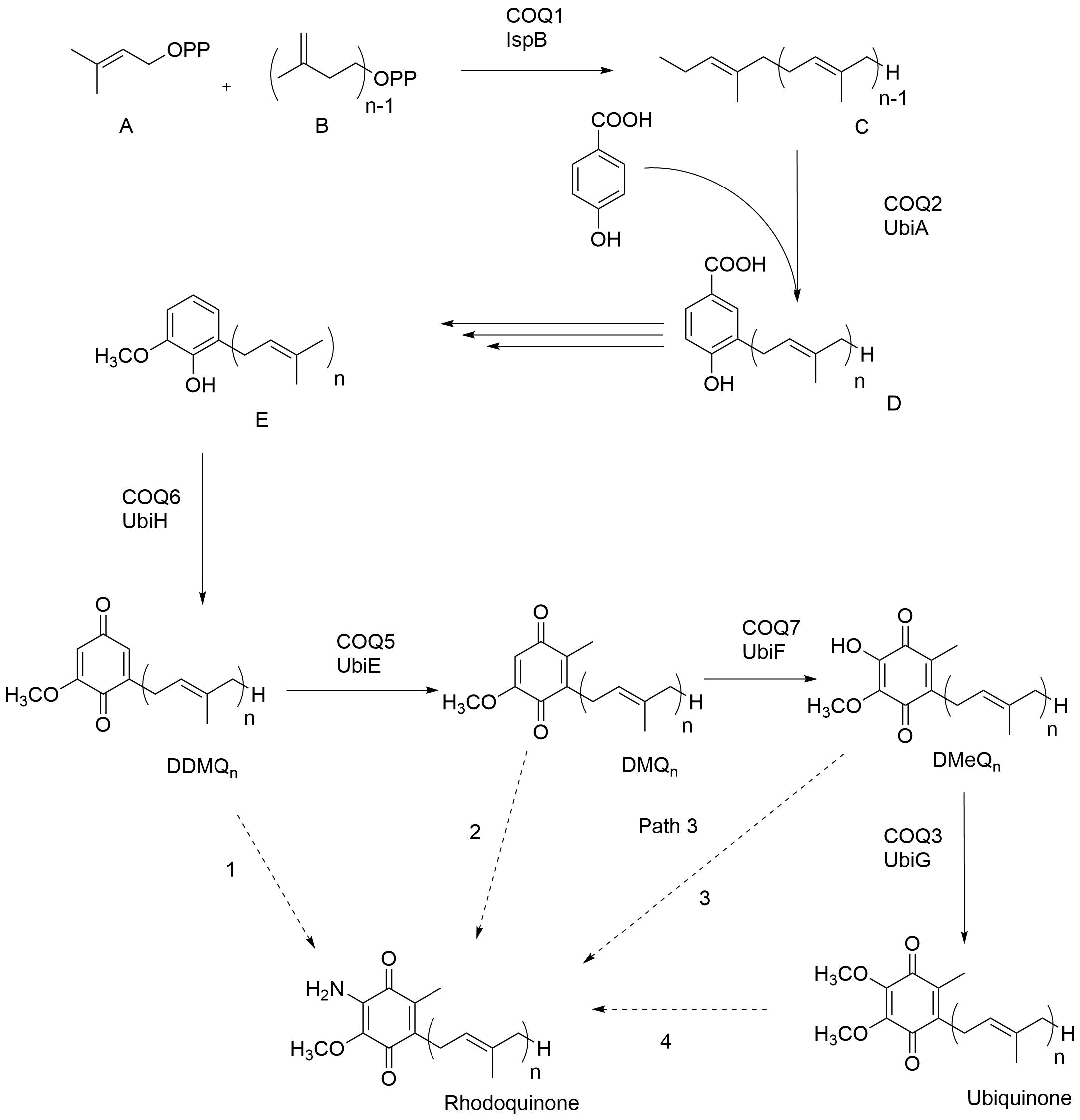 proposed biosynthesis of Rhodoquinone via prokaryotes